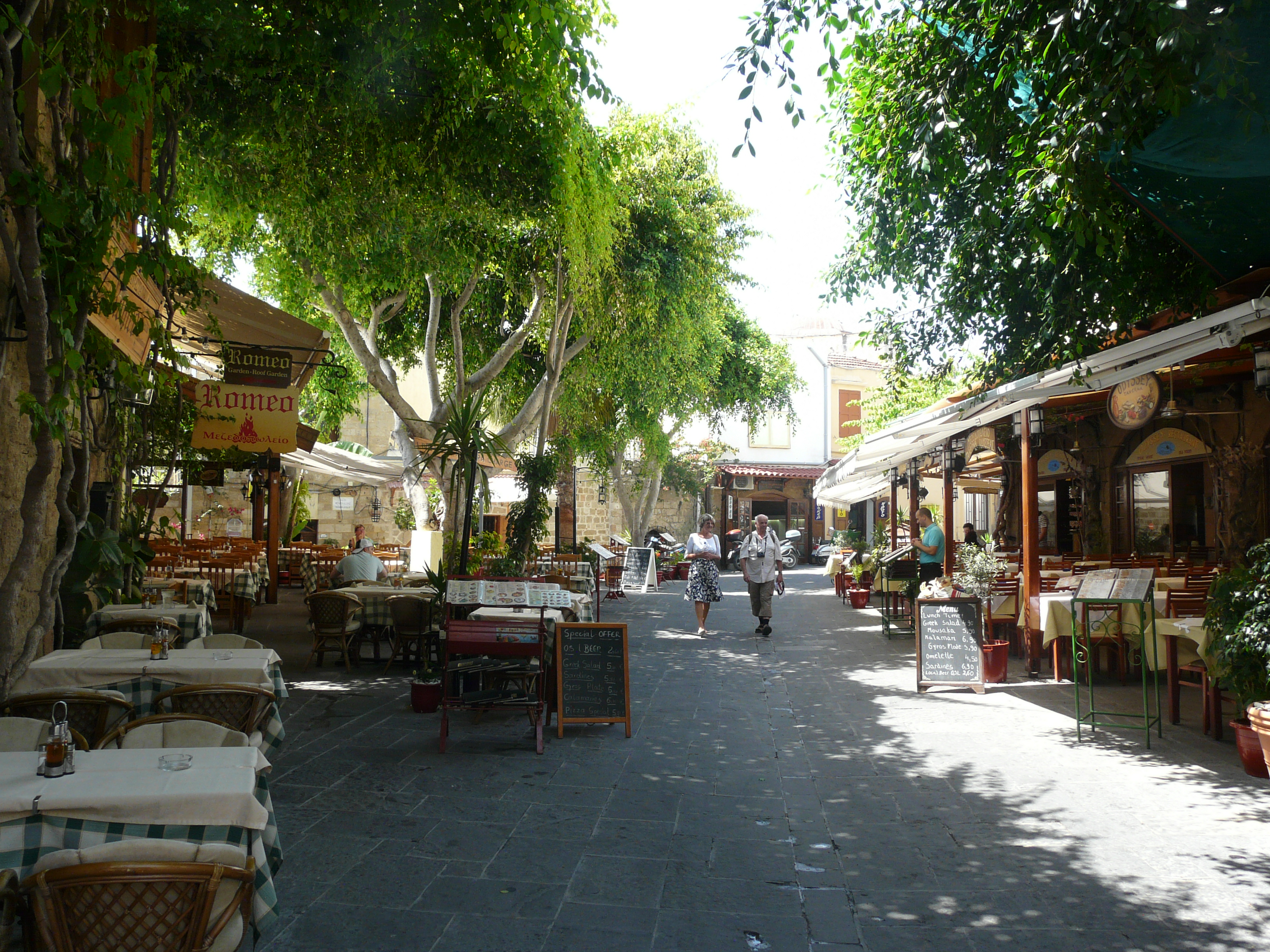 City of Rhodes.